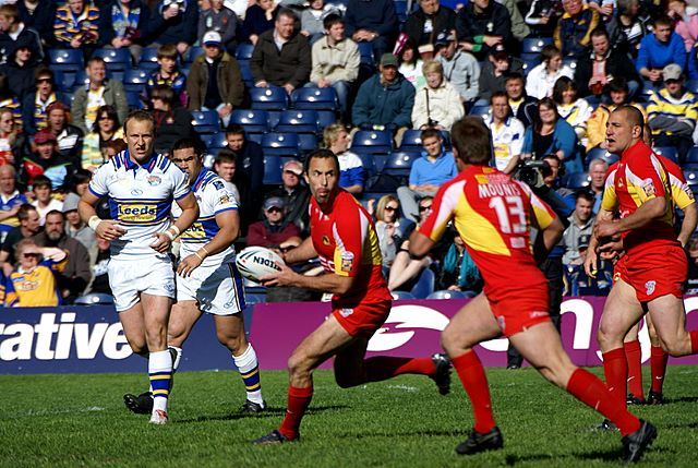 Photo of the Catalans Dragons playing at Murrayfield against Leeds during the Magic Week end 2009